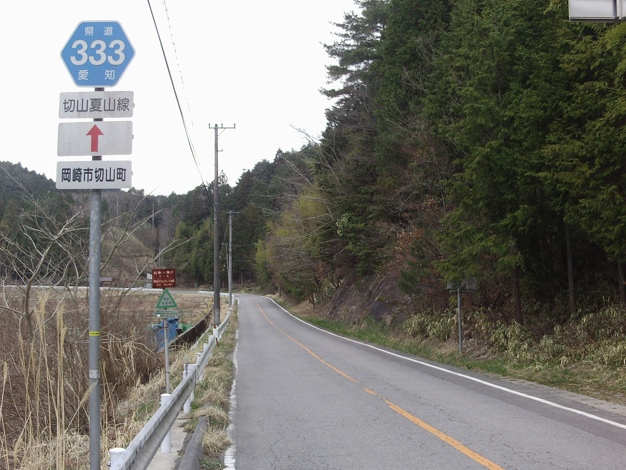 Aichi prefectural road No.333 in Kiriyamacho, Okazaki, Aichi.